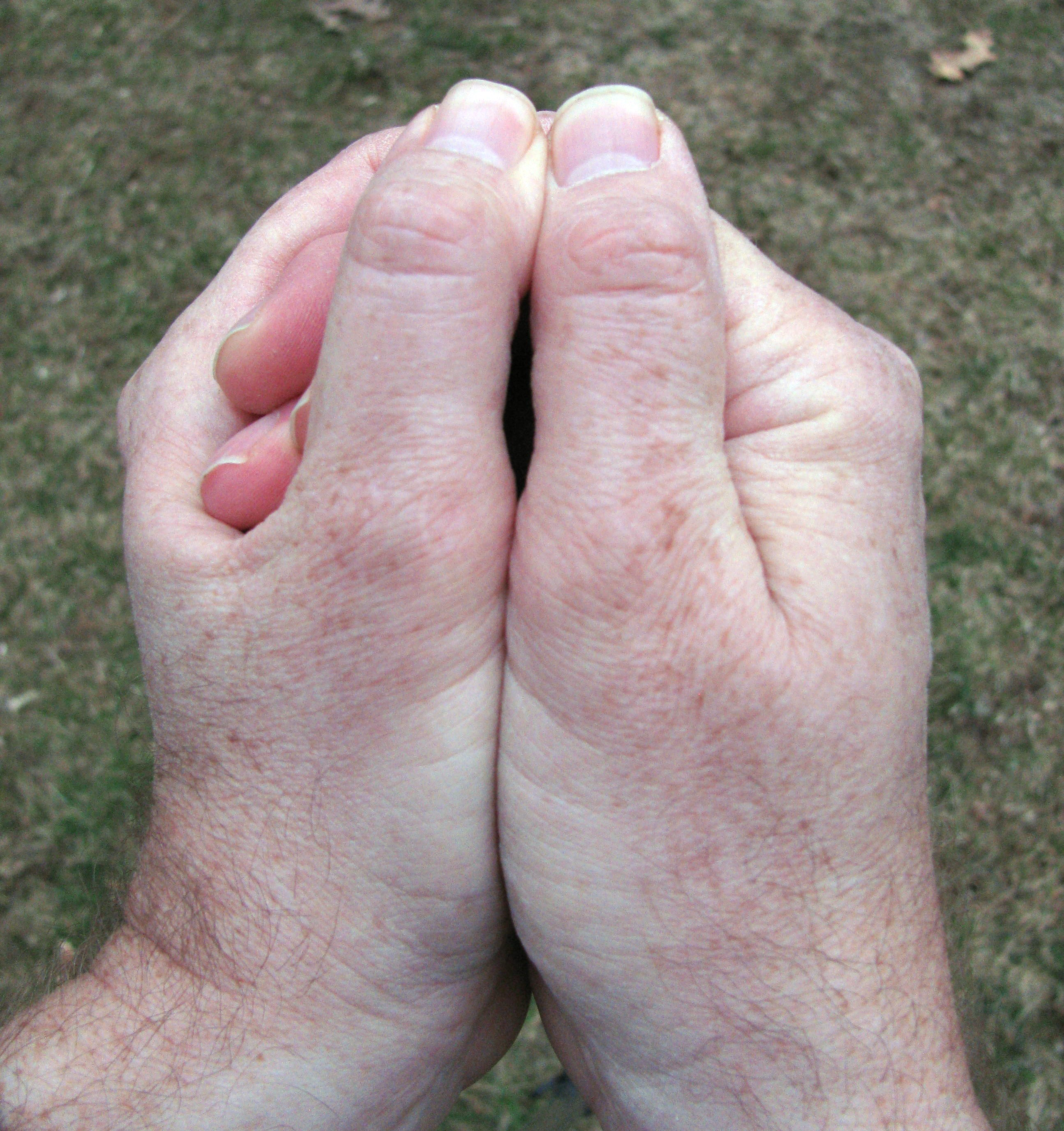 Photo showing the final position of the hands when using them to whistle.